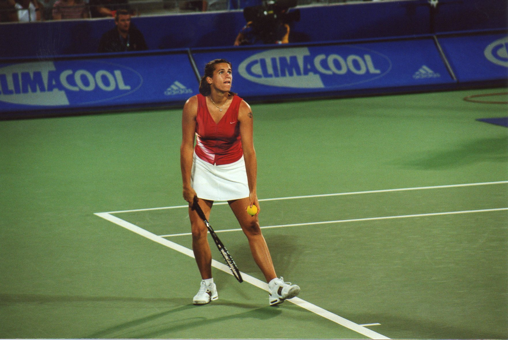 Amélie Mauresmo during the quarter-finals of a single match in Sydney WTA tournament in 2002. Mauresmo lost 6-4 7-6(6) against Serena Williams.